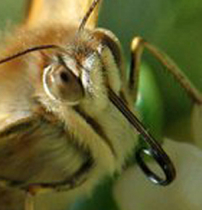 This is a painted lady butterfly (Vanessa cardui)funny face